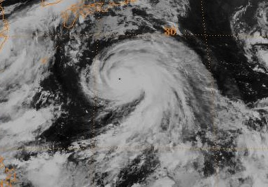 Infrared satellite image of Typhoon Judy near peak intensity on July 25, 1989